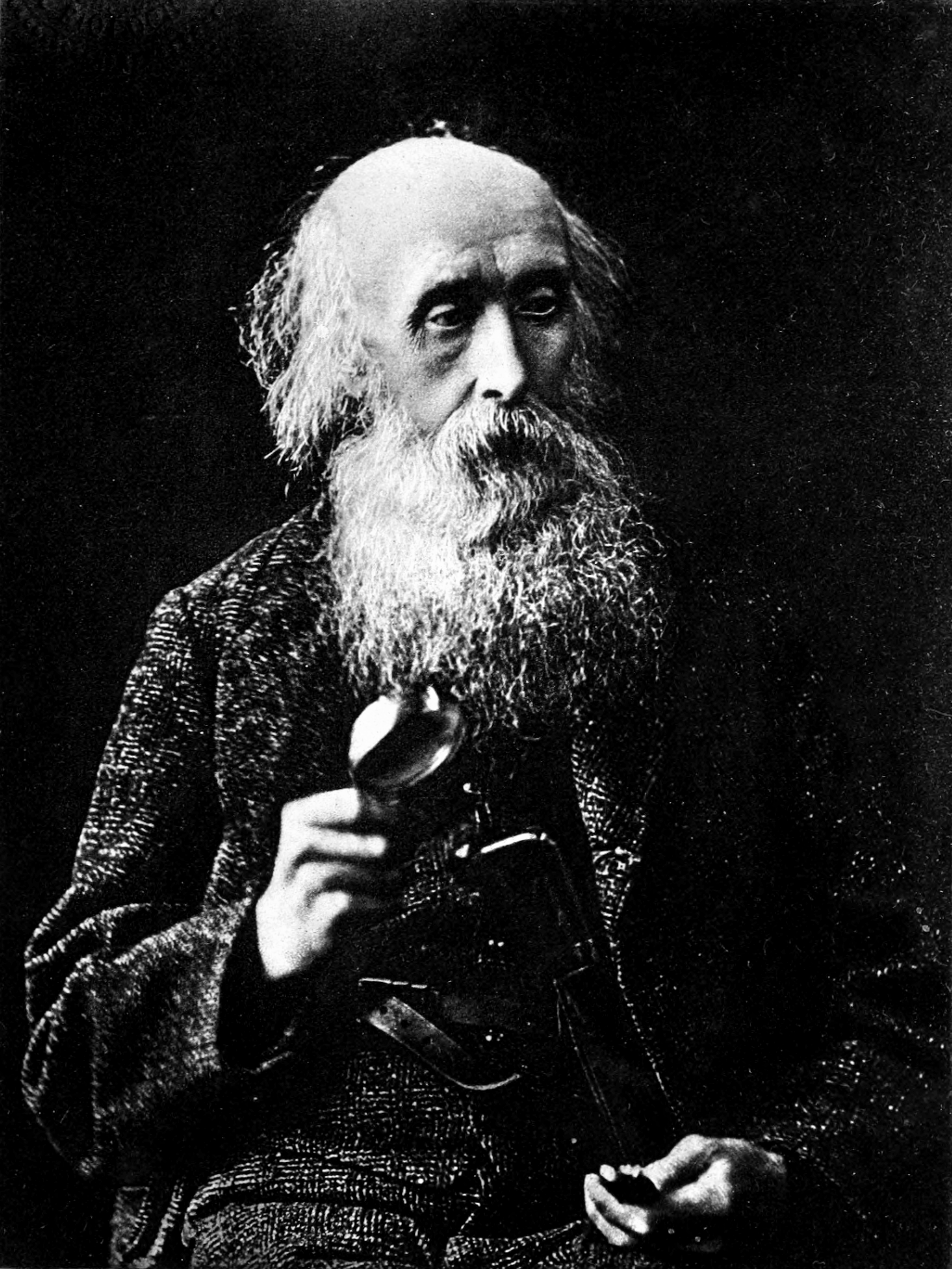 Photograph of John Hutton Balfour (1808–1884), Scottish botanist.